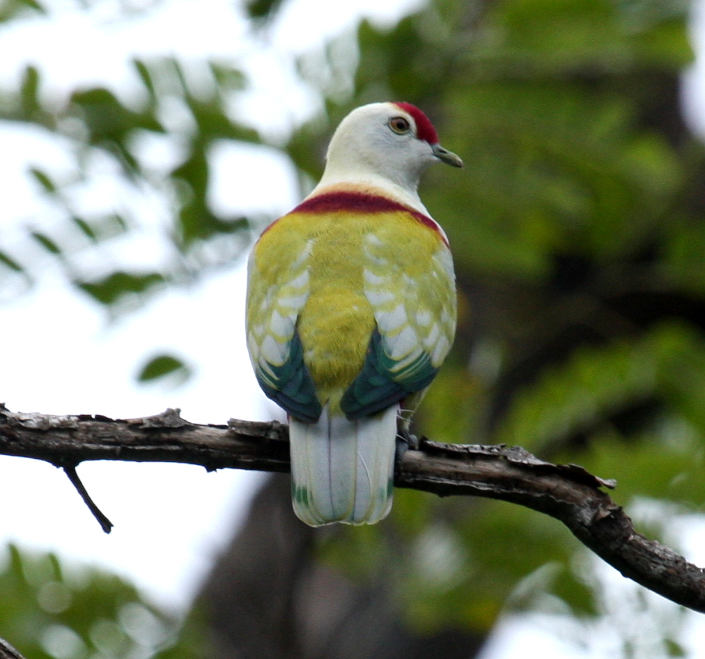 Many-coloured Fruit-dove (Ptilinopus perousii) Male Bobby's Farm, Vuna, Taveuni, Fiji Isles